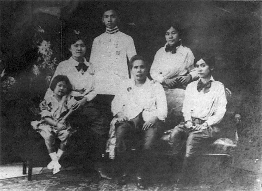 Portrait of the Malakul Family: Thanphuying Sa-ngiam Surendradhibodi (seated, centre), Mom Luang Pin Malakul (standing, left), Mom Luang Pok, Pong and Pong Malakul, and Mom Luang Panta Vasantasingh (seated, leftmost)